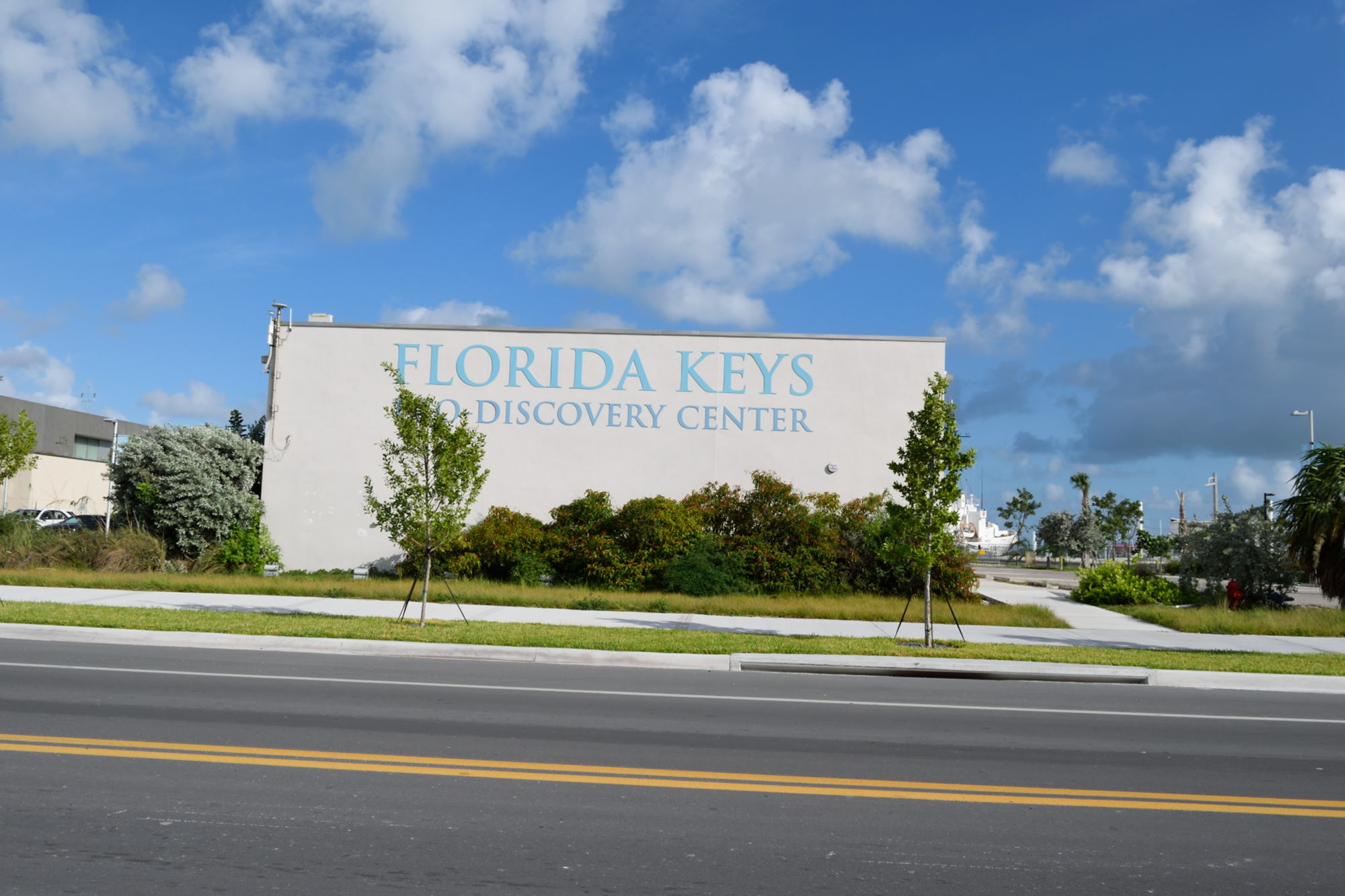 Closed on Monday's!